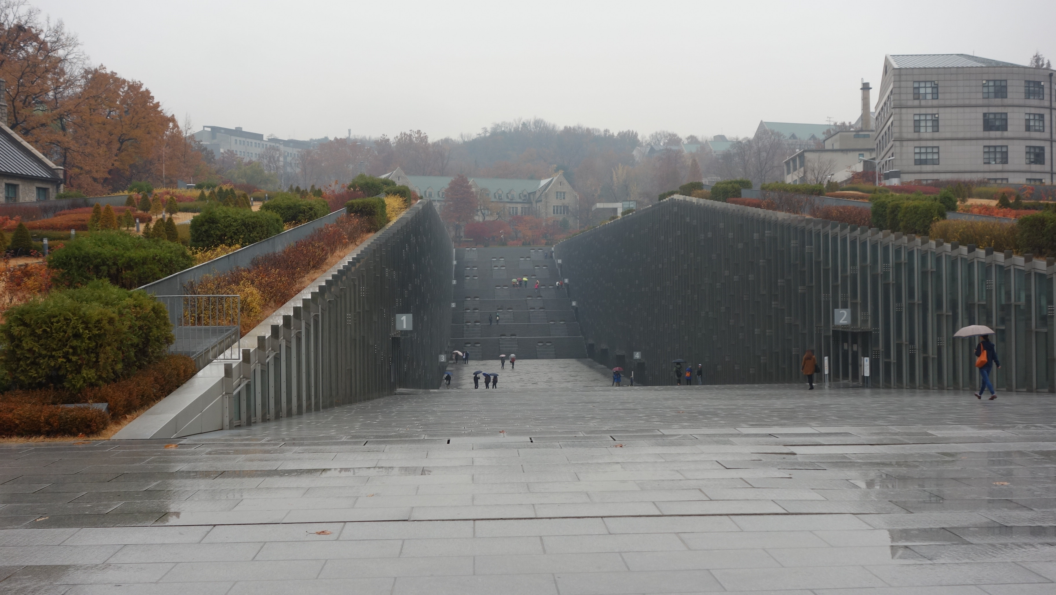 French-designed (Dominique Perrault) campus complex at Ewha Women's University, Seoul, Korea